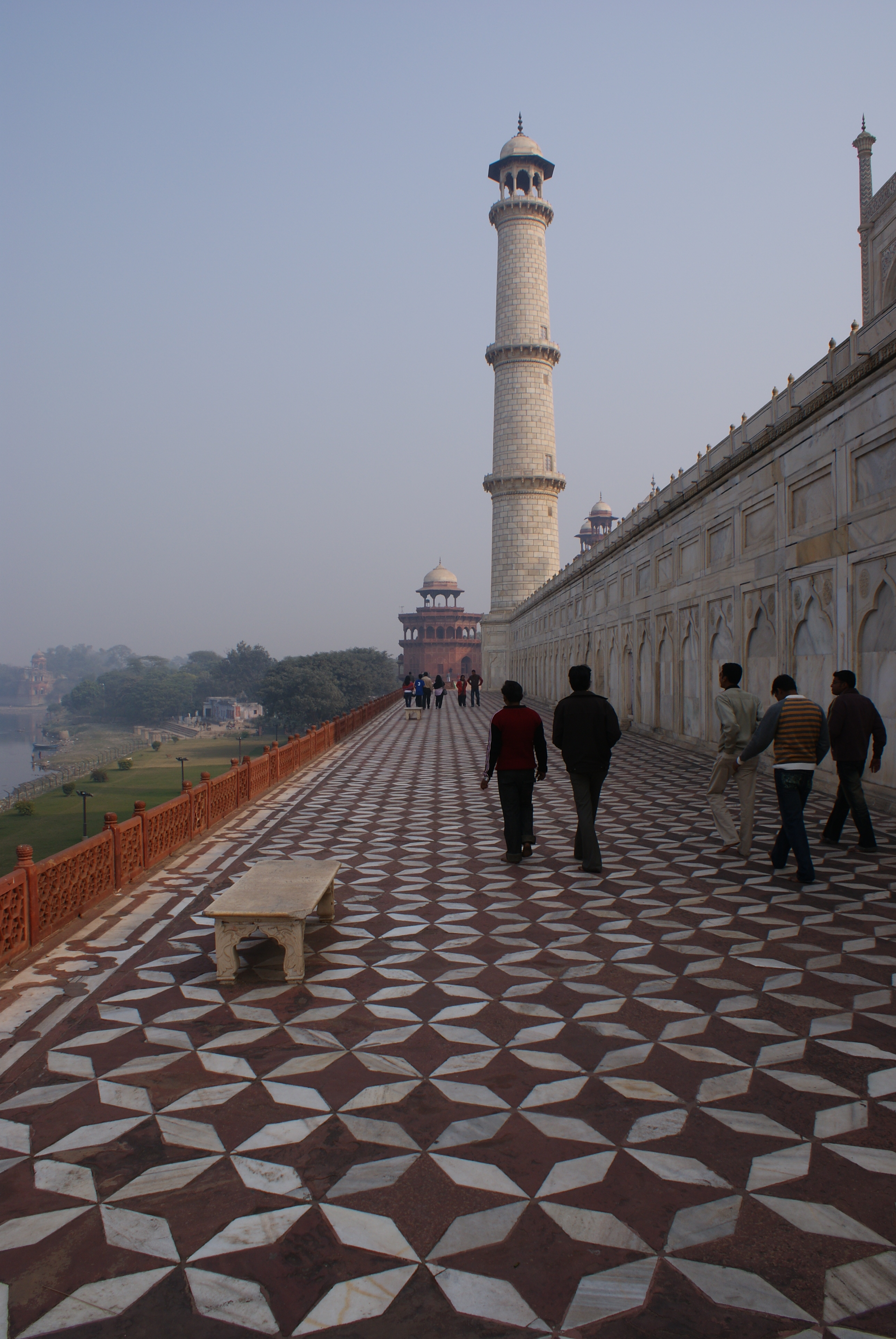 Semi marble flooring on one of the platform all around The Taj Mahal